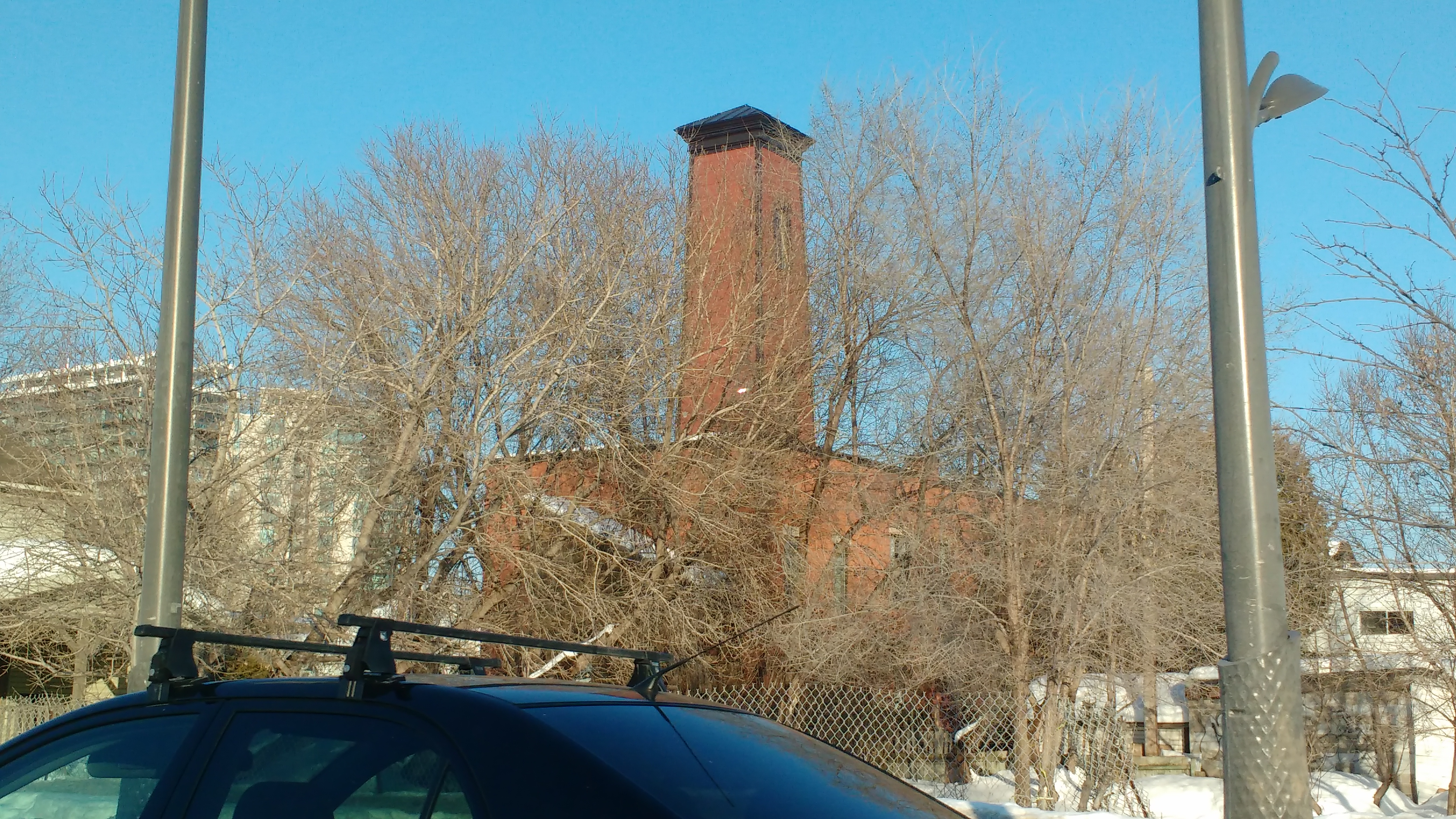 back of the old Hull fire station.